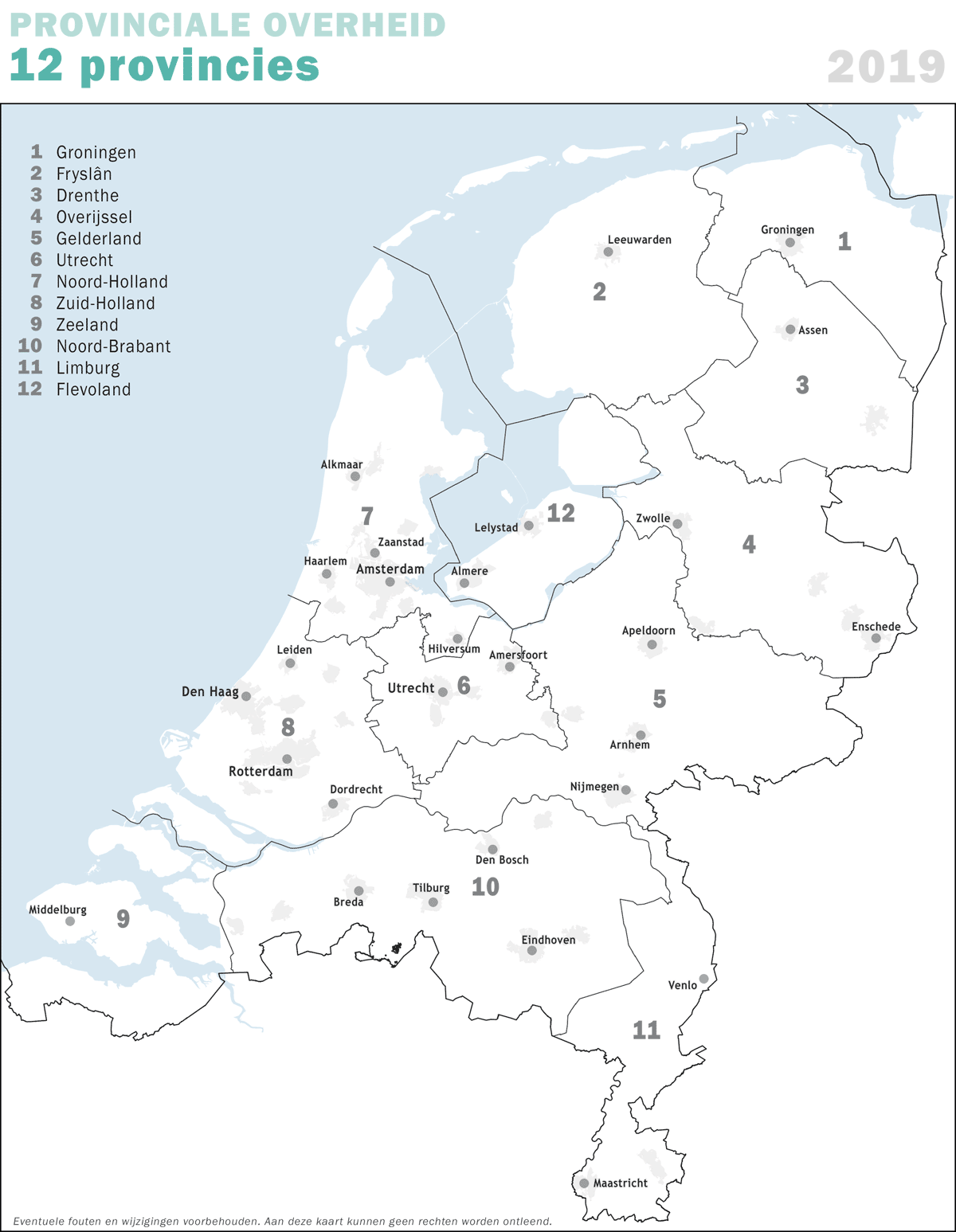 Overview map of he Dutch provinces as per 2019, compiled by Jan-Willem van Aalst using open geodata.